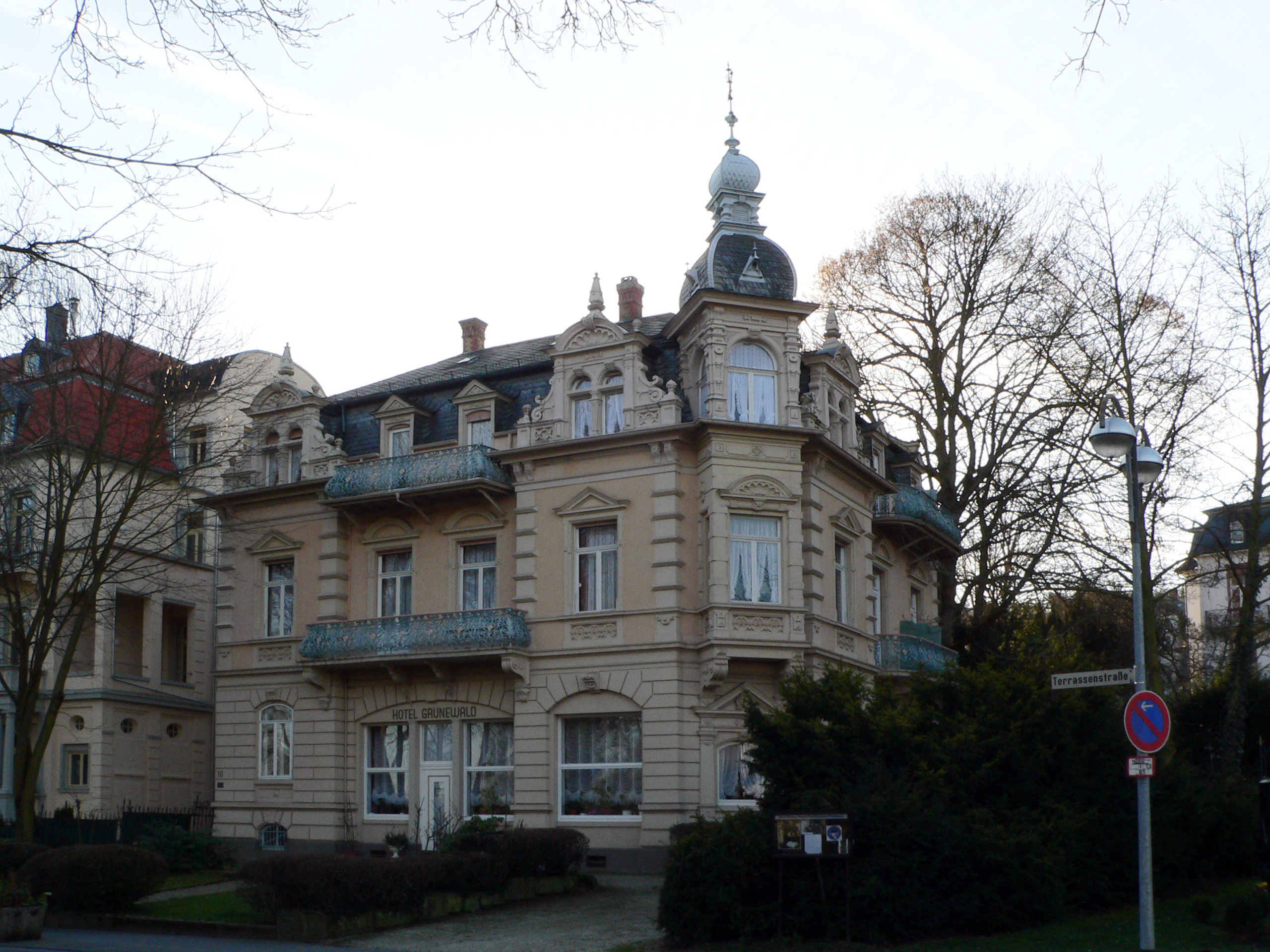 Home of Elvis Presley during his military service from October 1958 to February 1959 in Germany